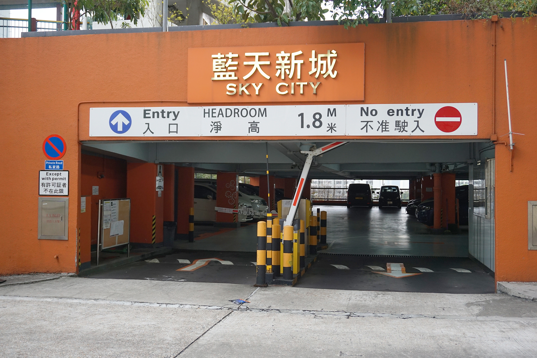 Hing Tin Estate in Lam Tin, Hong Kong.